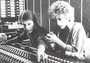 A photo of producer Eric Greif, at right, with engineer Mike Frazier, at Chapman Recording Studio, Kansas City in 1985.